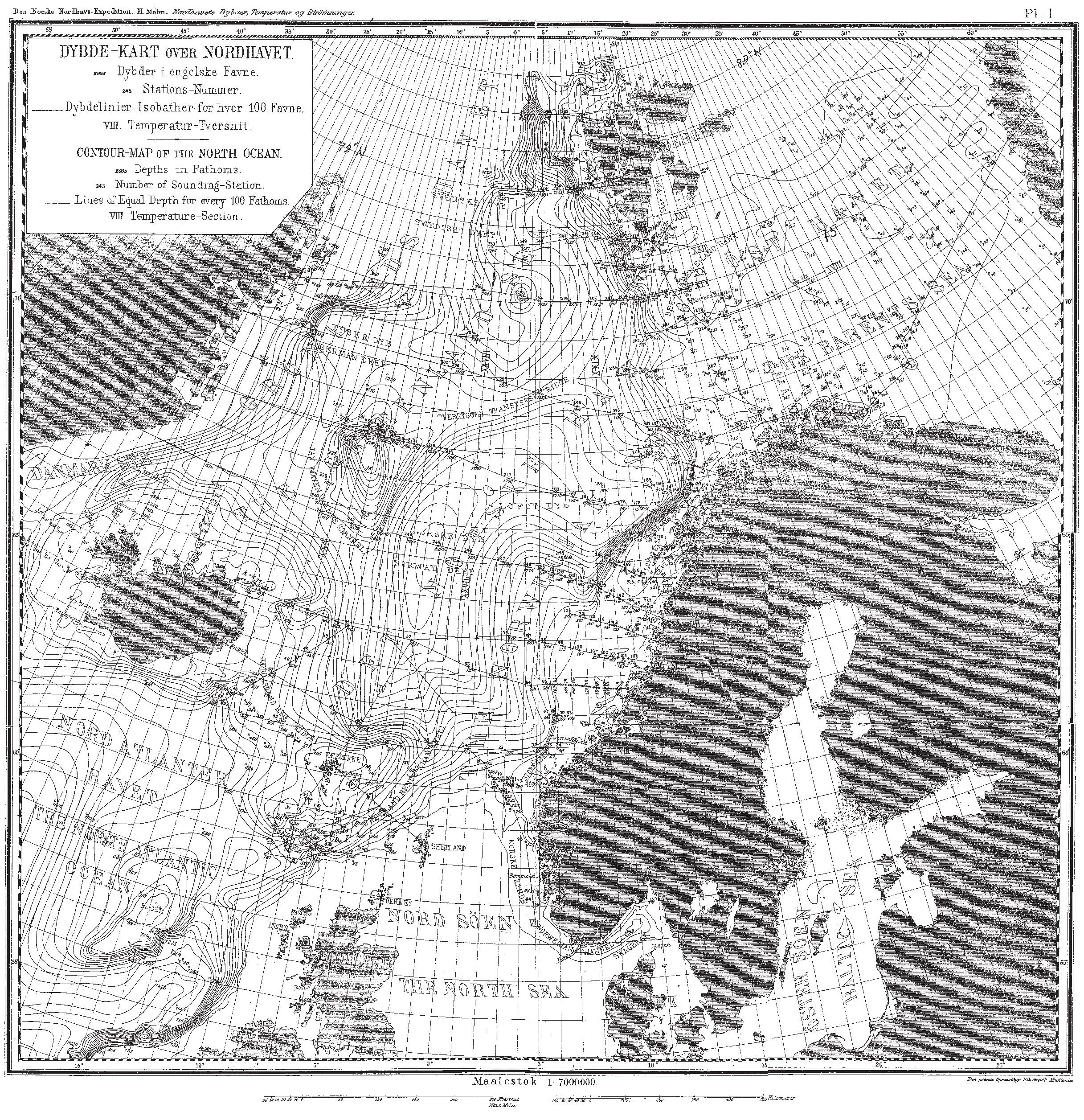 Contour map of the North Atlantic by Henrik Mohn, 1887.